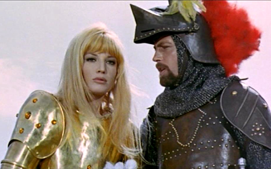 La cintura di castità (On My Way to the Crusades, I Met a Girl Who...) by Pasquale Festa Campanile starring Monica Vitti and Tony Curtis